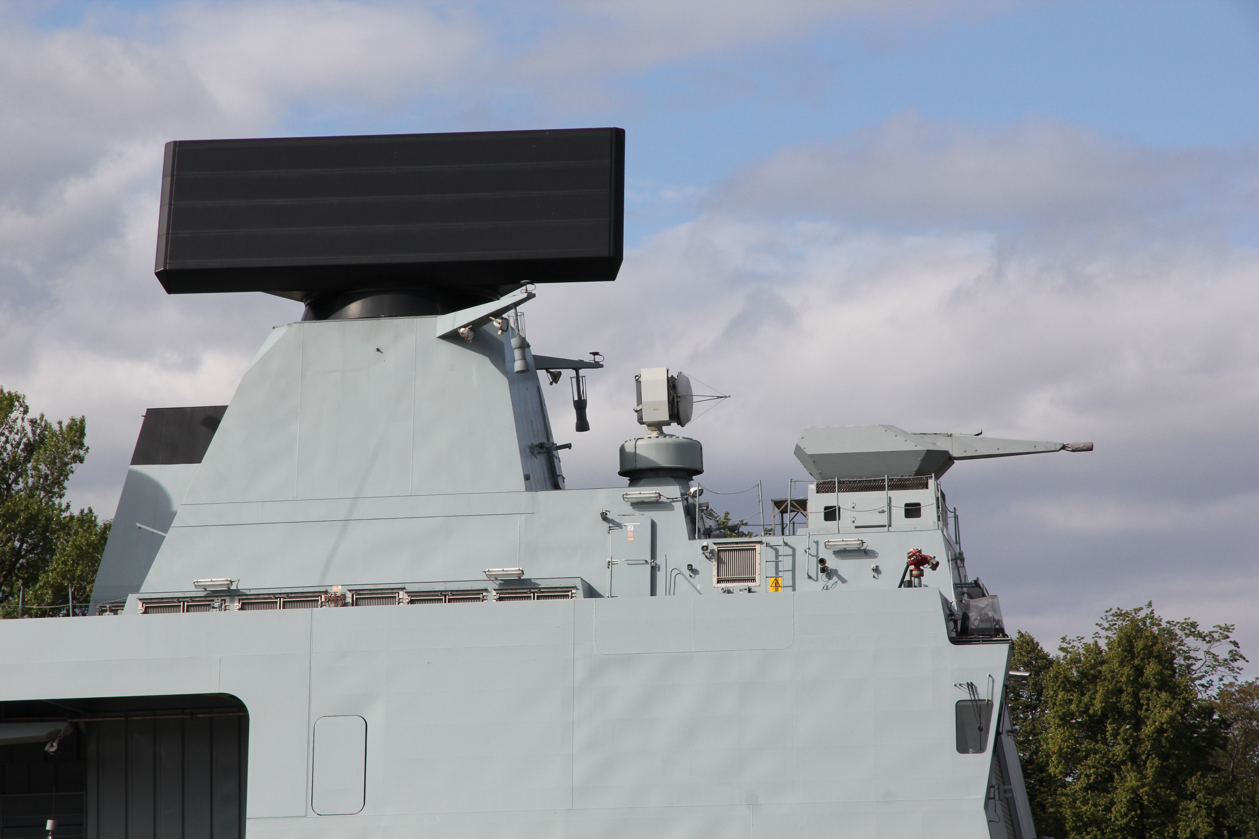 SMART-L radar of Danish Iver Huitfeldt-class frigate Peter Willemoes (F362) in Aura river in Turku during the Northern Coasts 2014 exercise public pre sail event. 35 mm Oerlikon Millenium CIWS is also visible.